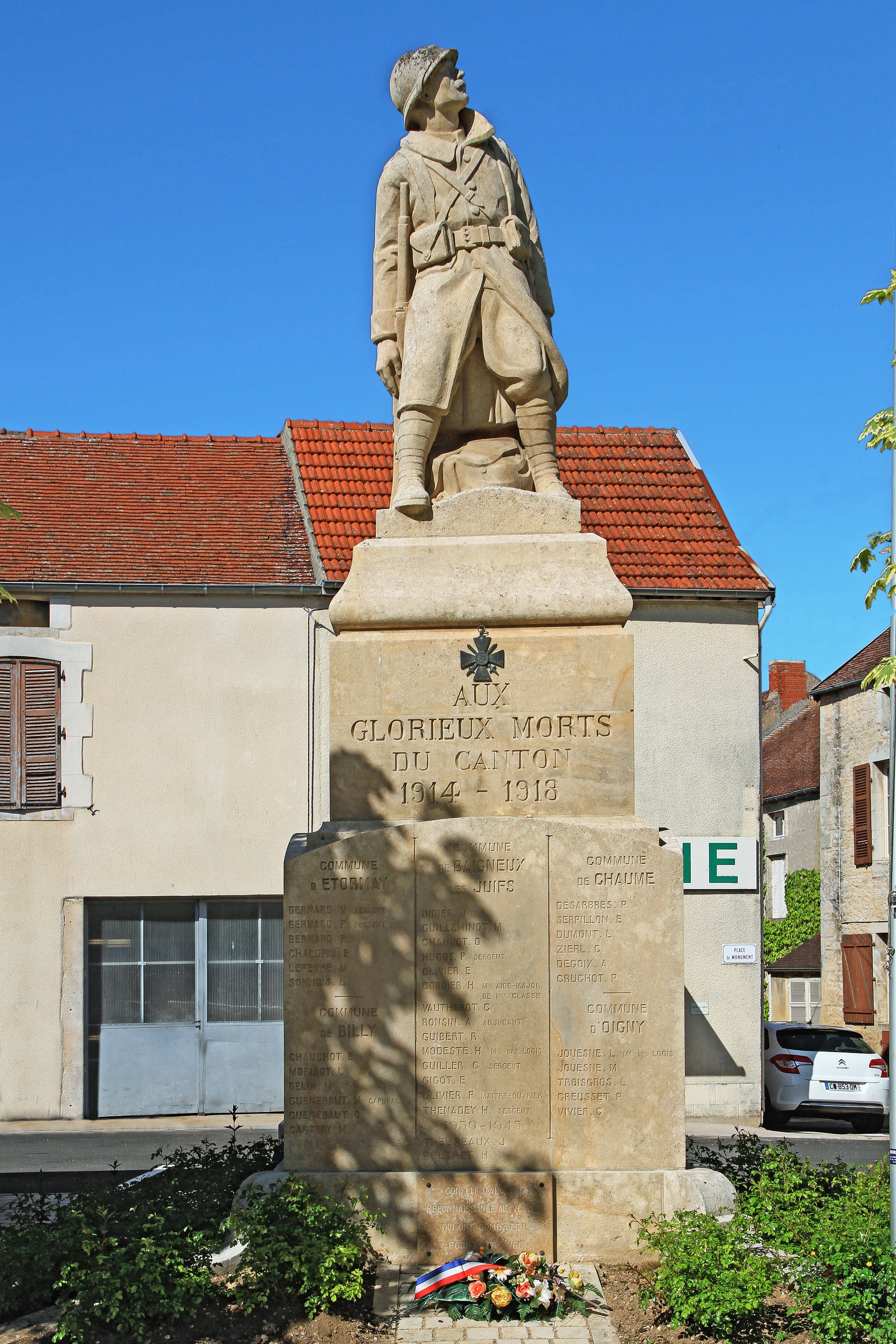 Monument aux morts de Baigneux-les-Juifs, Étormay, Billy-lès-Chanceaux, Chaume-lès-Baigneux et Oigny à Baigneux-les-Juifs